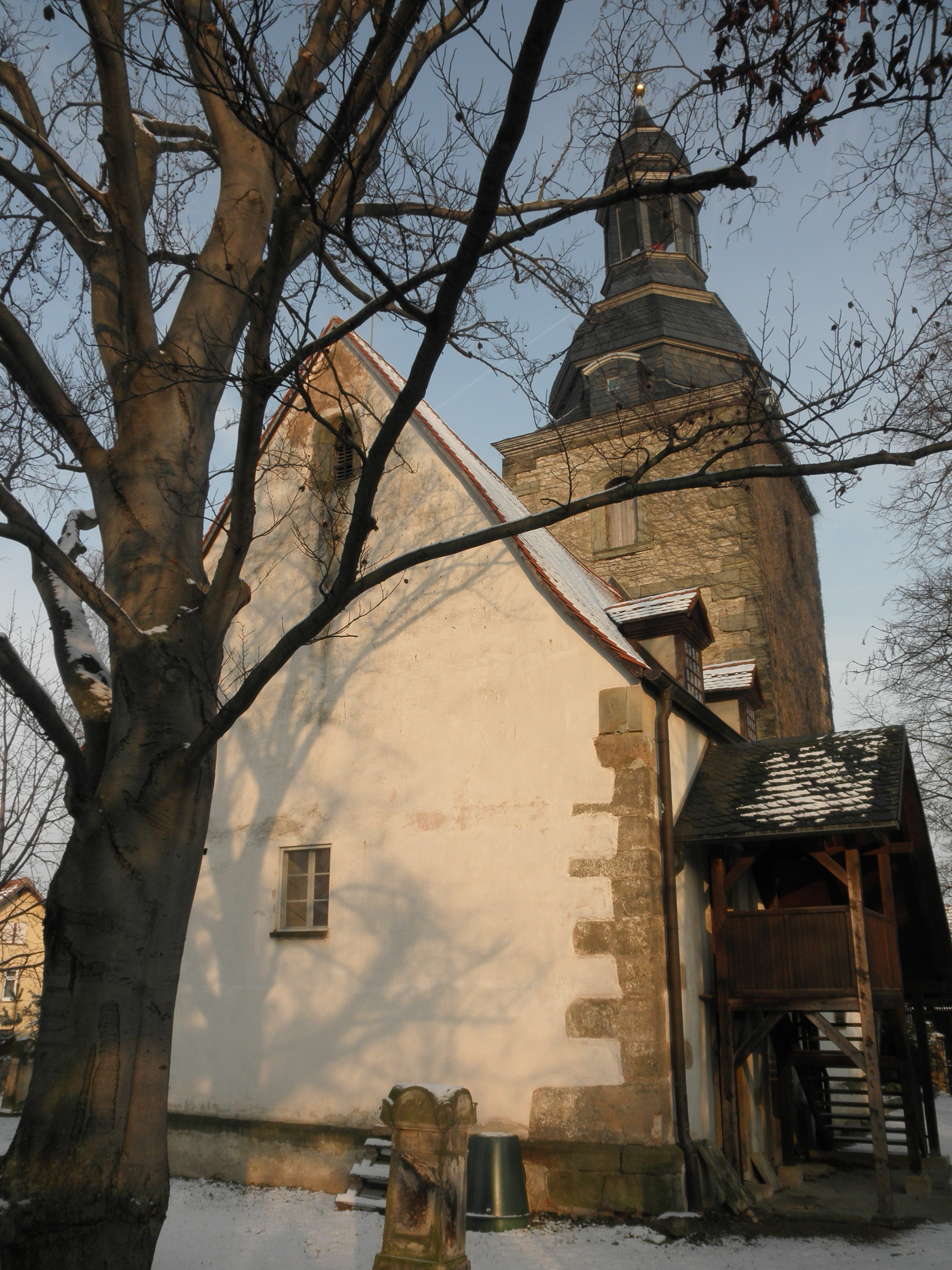 Church in Mönchenholzhausen in Thuringia